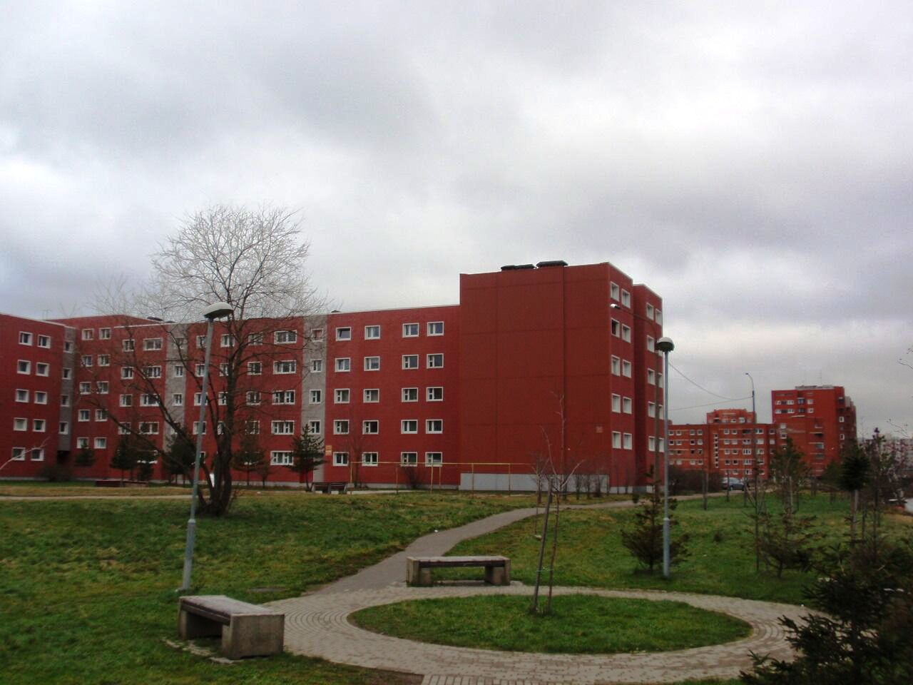 Apartment buildings on Liikuri street in Kurepõllu, Lasnamäe, Tallinn.